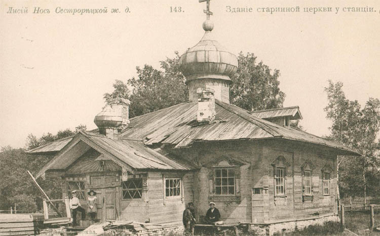 Church of st Alexander Nevsky in the Lisiy Nos (Saint Petersburg, Russia)